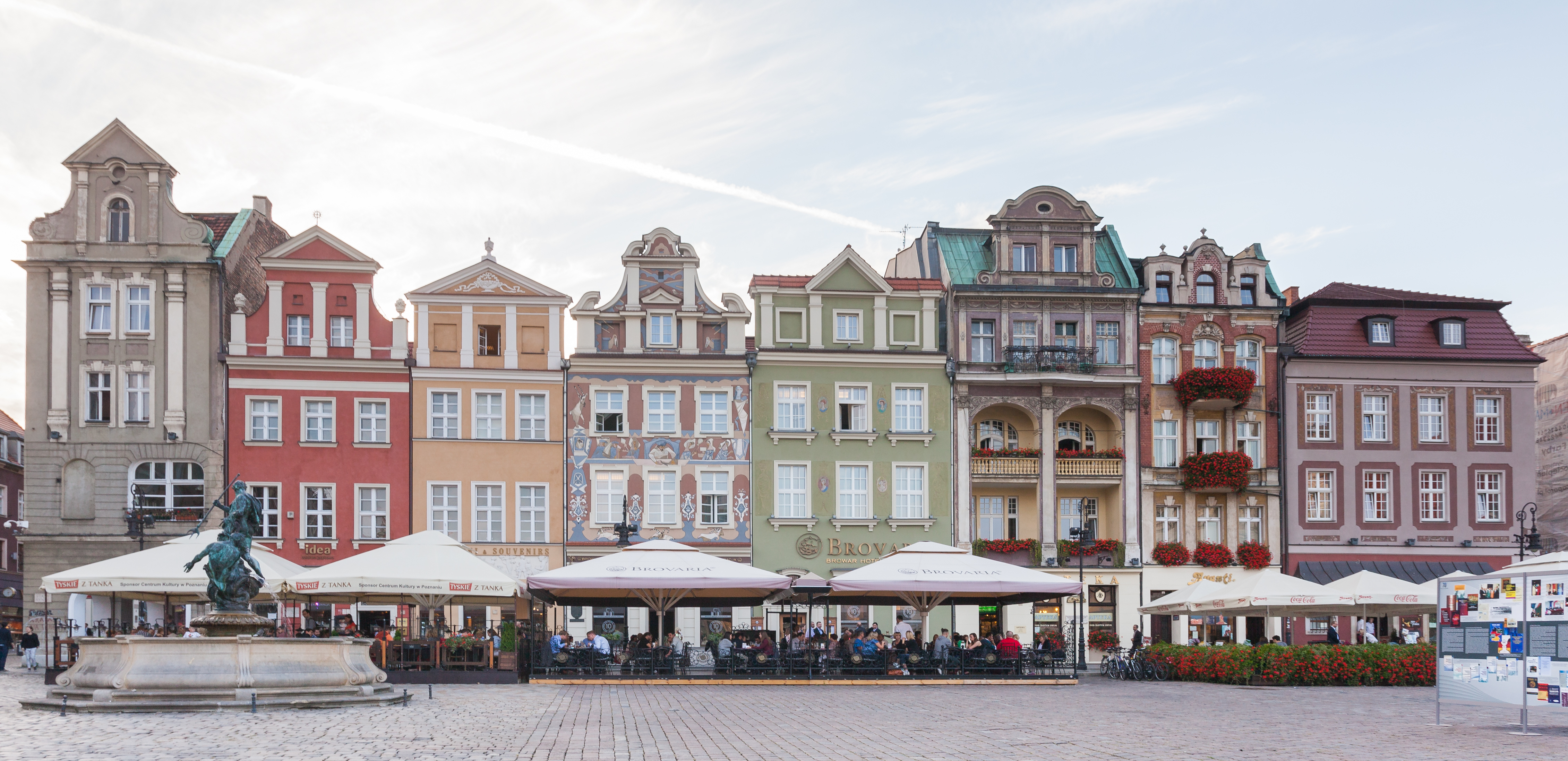 Main Square, Stary Rynek 70-77, Poznań, Poland Poznań, Stary Rynek 75